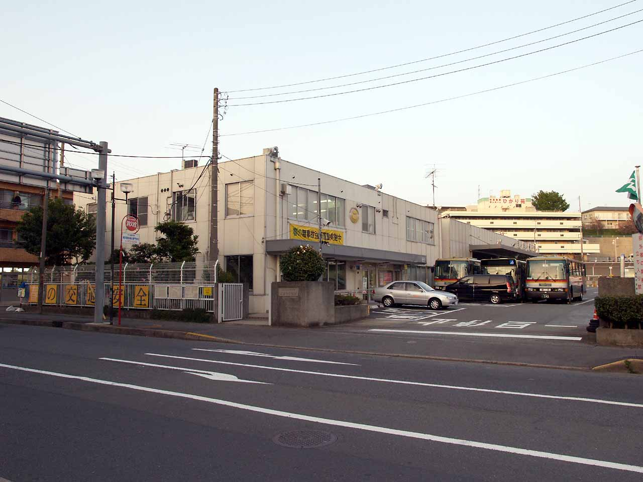 Tokyu Bus Aobadai Dept, view of main gate and office.